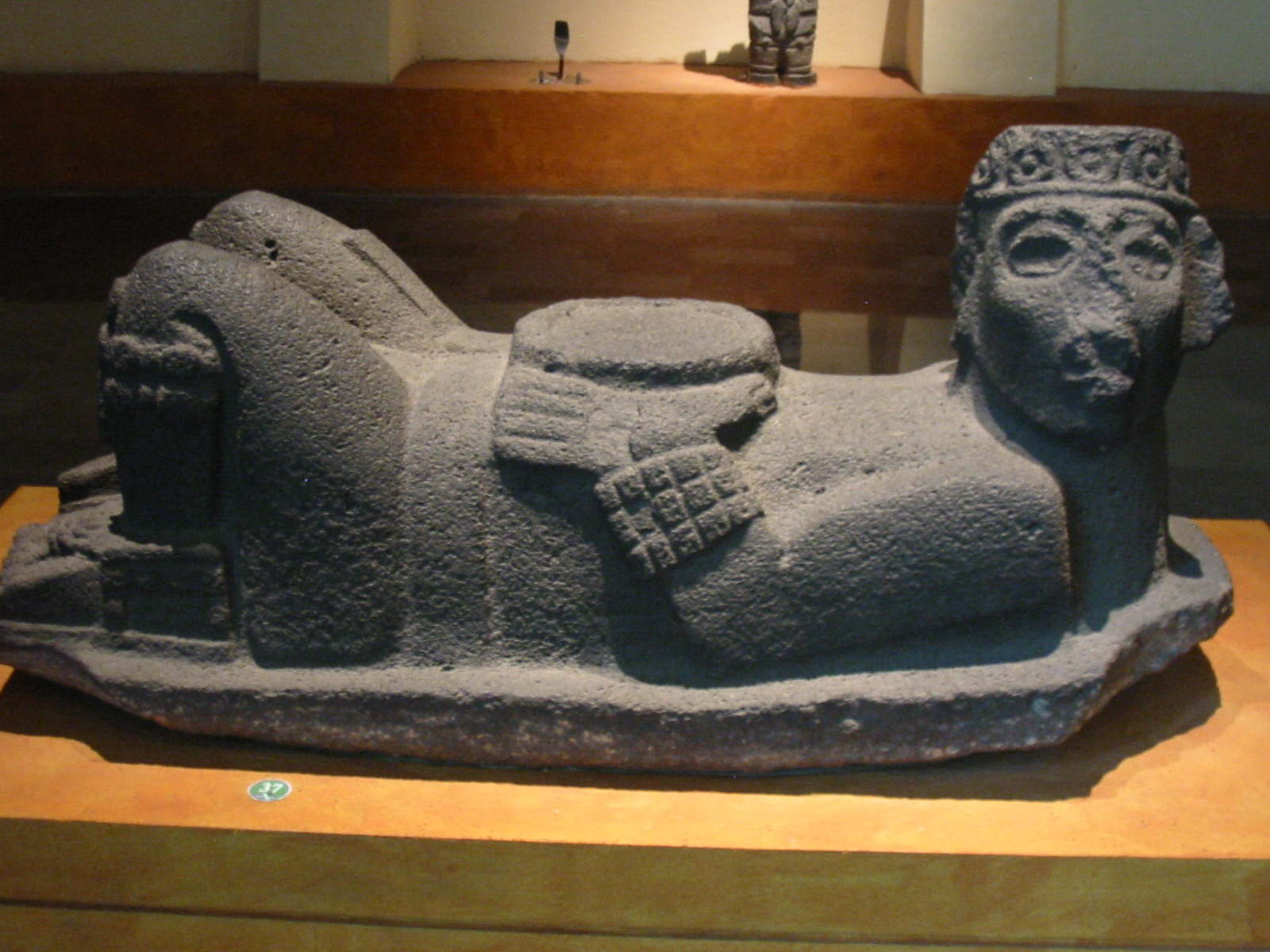 An example of a chac mool on display at the National Museum of Anthropology in Mexico City